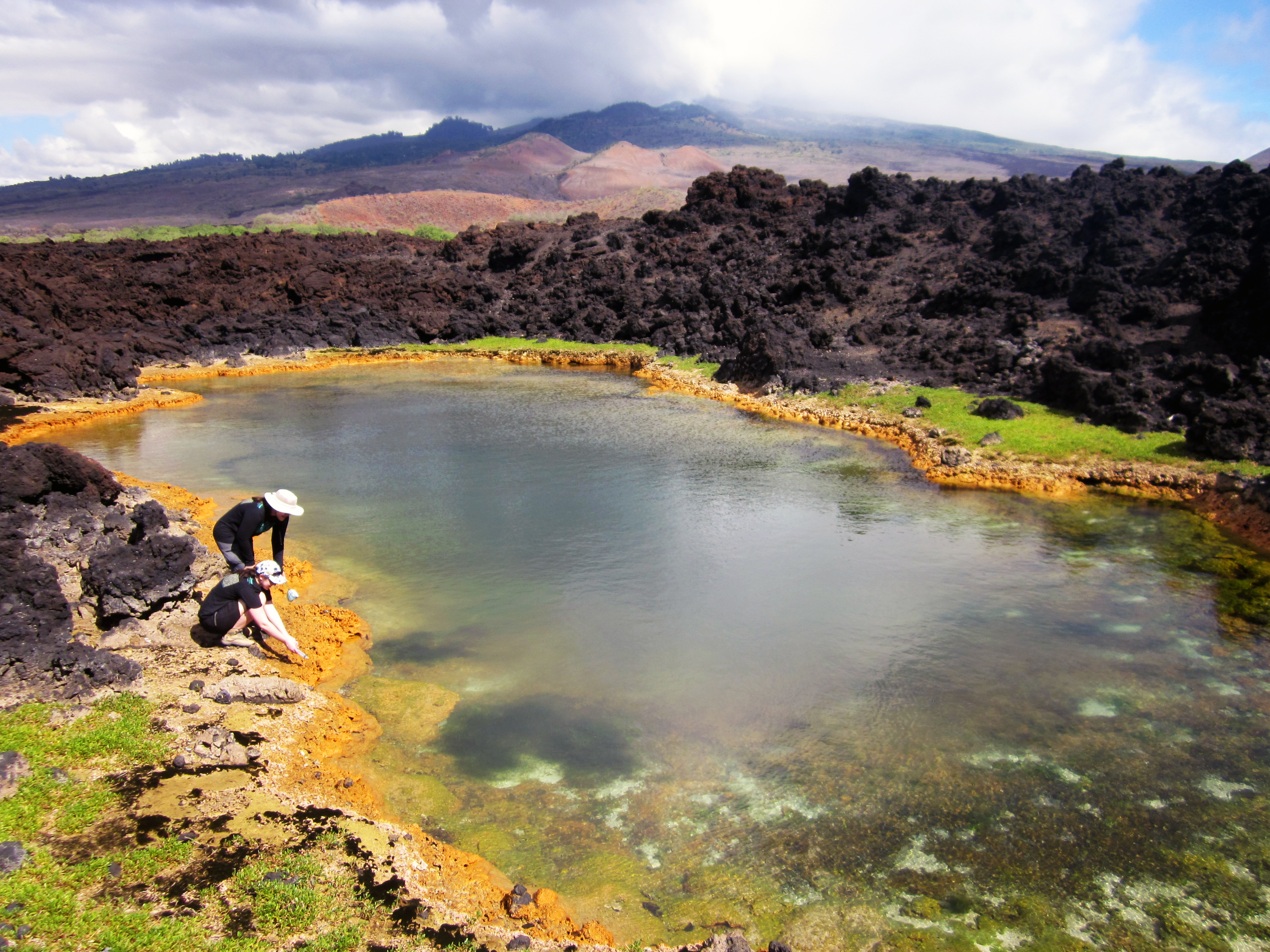 “An anchialine pond named Skippy’s Pond at the ‘Ahihi-Kina’u Natural Area Reserve on South Maui in the Hawaiian Islands. Anchialine habitats consist of coastal, but landlocked ponds, pools, and caves with subterranean connections to both freshwaters and seawater. On Maui and Hawaii some anchialine habitats such as Skippy’s Pond are characterized by an endemic orange bacterial/cyanobacterial crust community. The striking fluorescent orange of the pond stands out against the stark black lava fields where these habitats are found. Researchers pictured here are collecting samples of the crust and shrimp that graze on the crust to determine the crust’s community composition and explore ecological interactions with animals in the anchialine ecosystem”